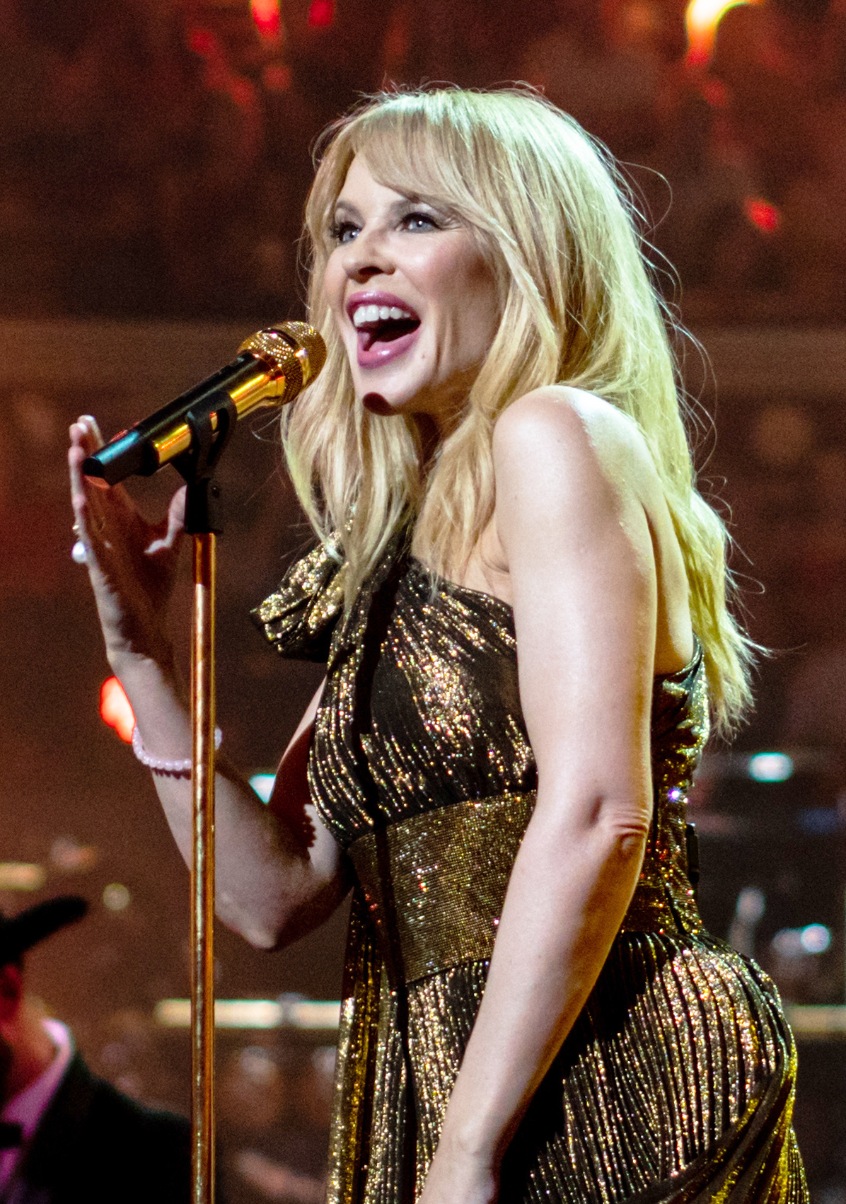 Kylie Minogue at The Queen's Birthday Party